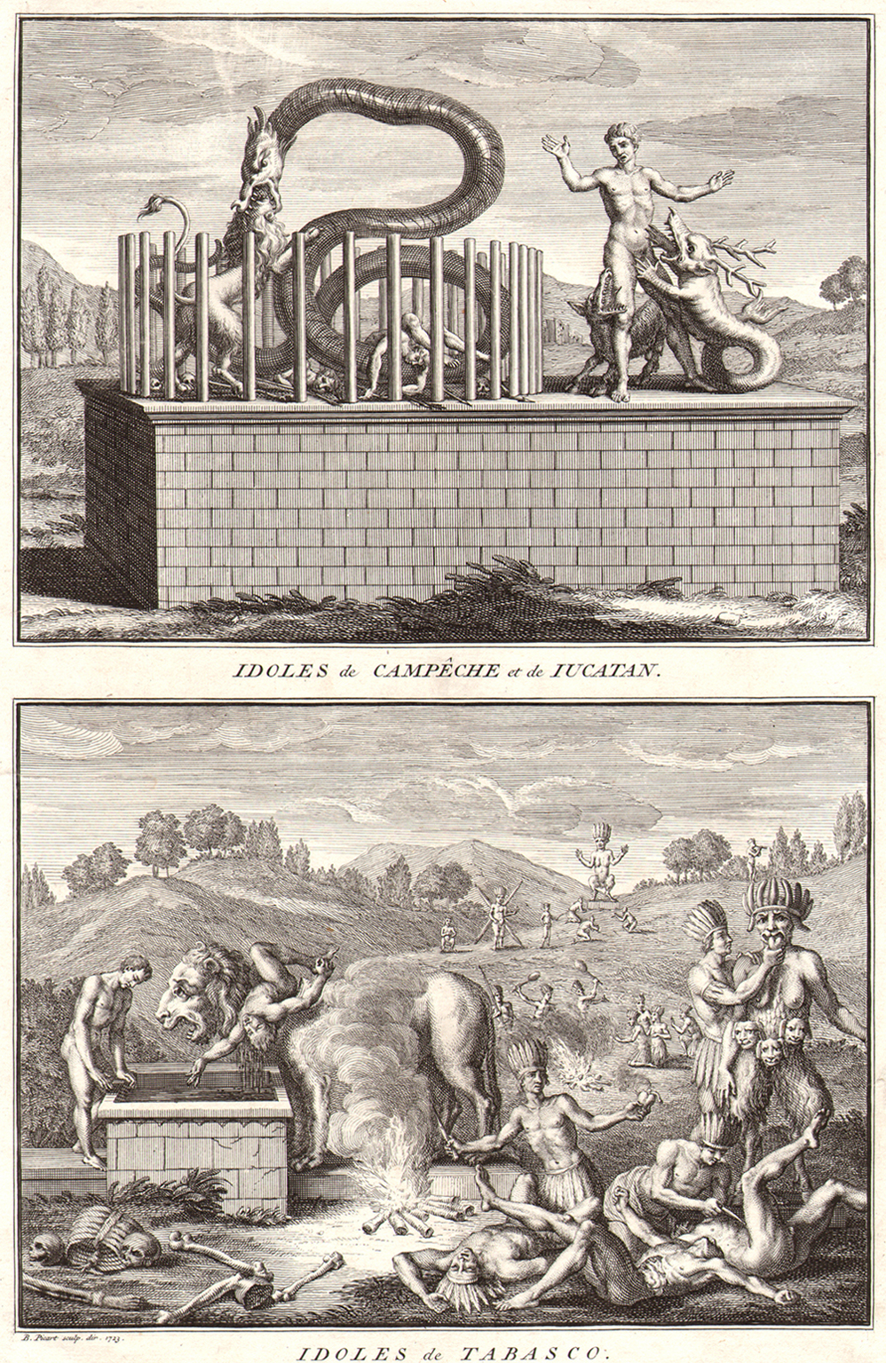 1723. Bernard Picart (1673-1733), 33,3X22 cm, Etching.